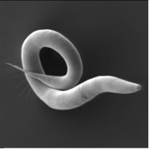 Electron micrograph of Caenorhabditis elegans